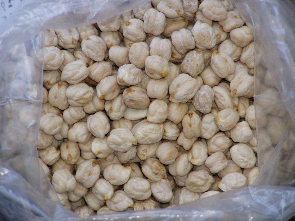 Chickpeas (Cicer arietinum) from Spain